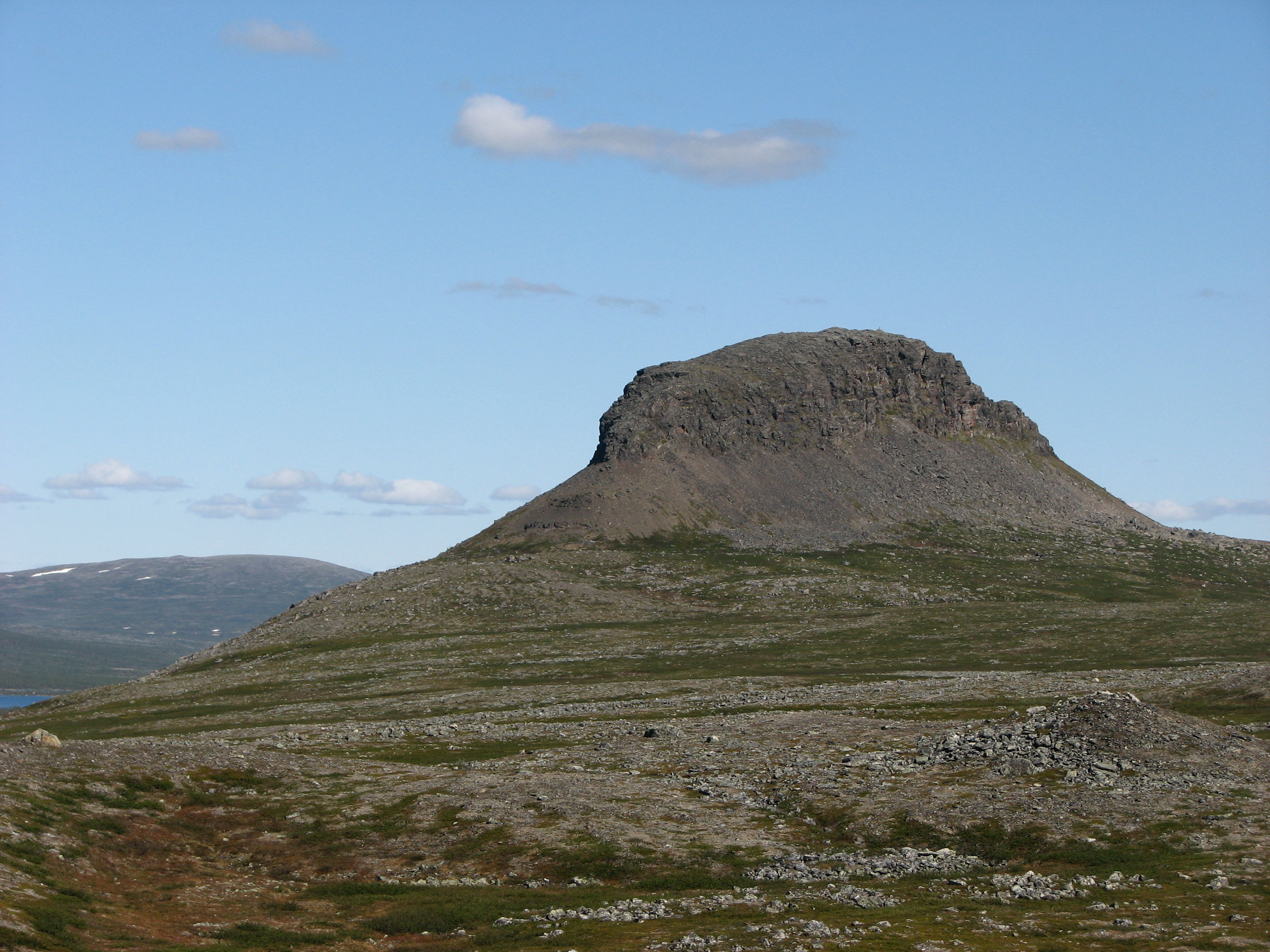 Saivaara hill in Enontekiö, Finland. The photo was taken from south-west, from Nordkalottleden Trail the 7th of July, 2008 afternoon.